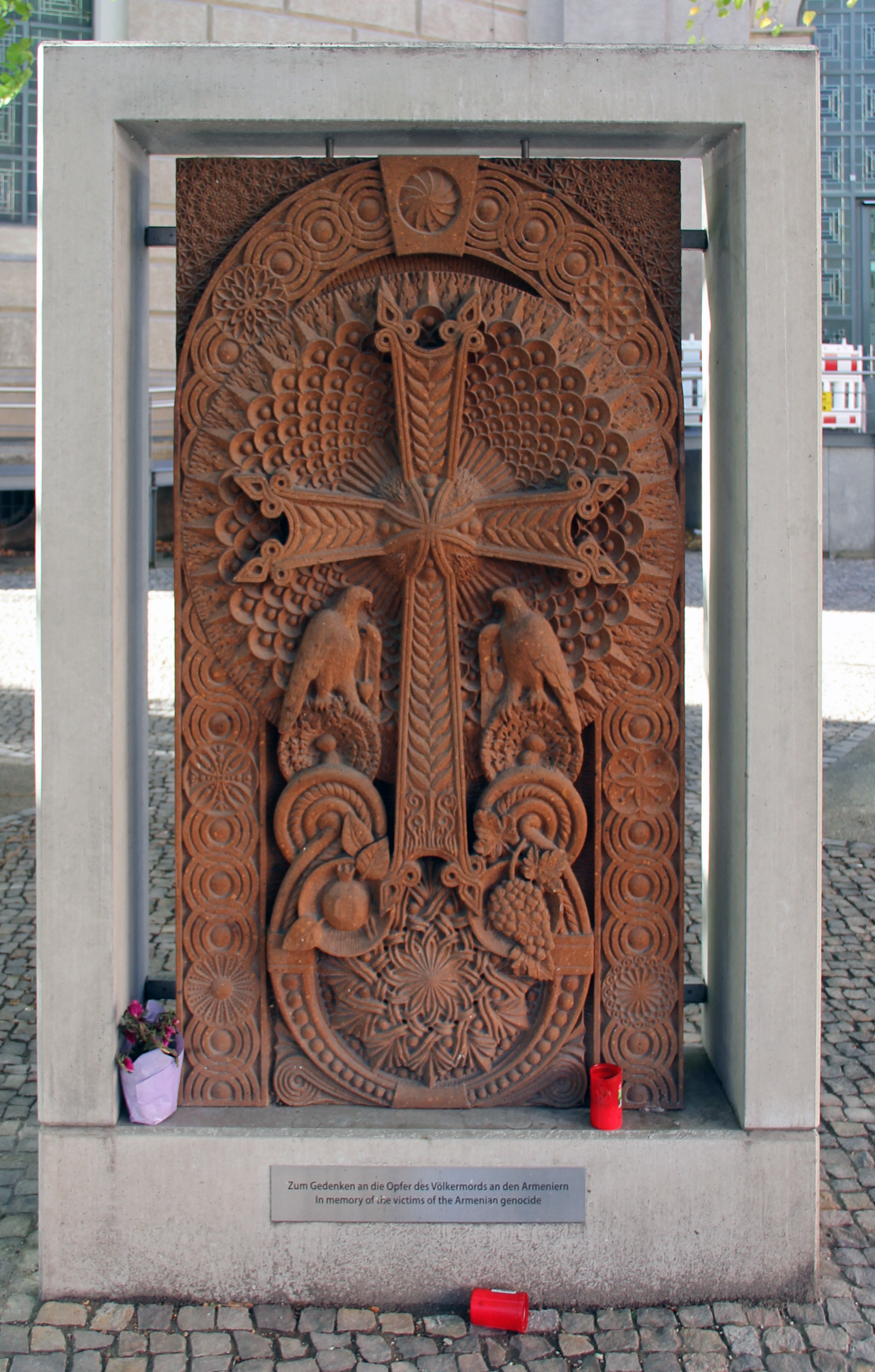 Memorial, Völkermord an den Armeniern, Hinter der Katholischen Kirche, Berlin-Mitte, Germany